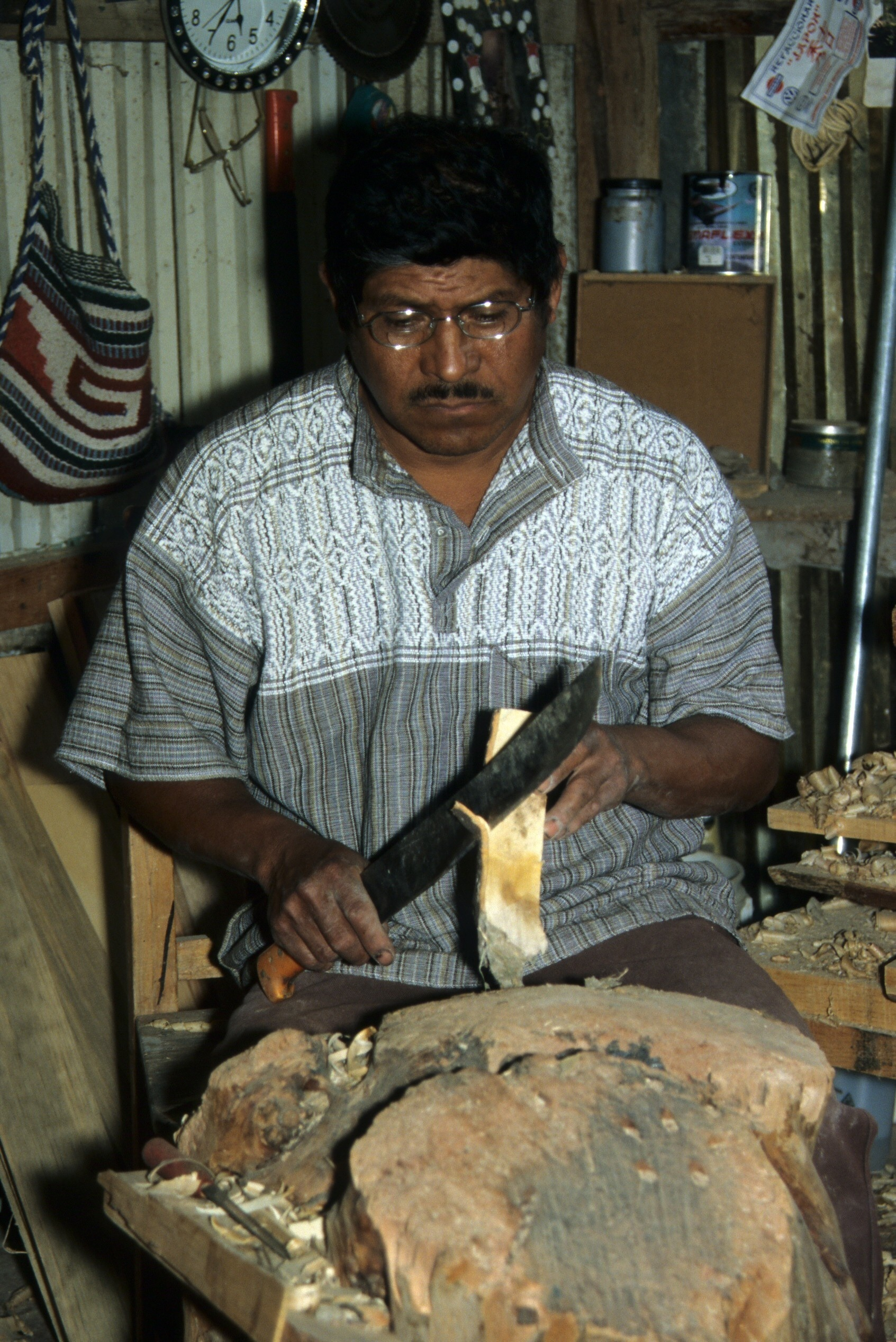 Agustin Cruz Tinoco carving a piece at his workshop in San Agustin de las Juntas, Oaxaca